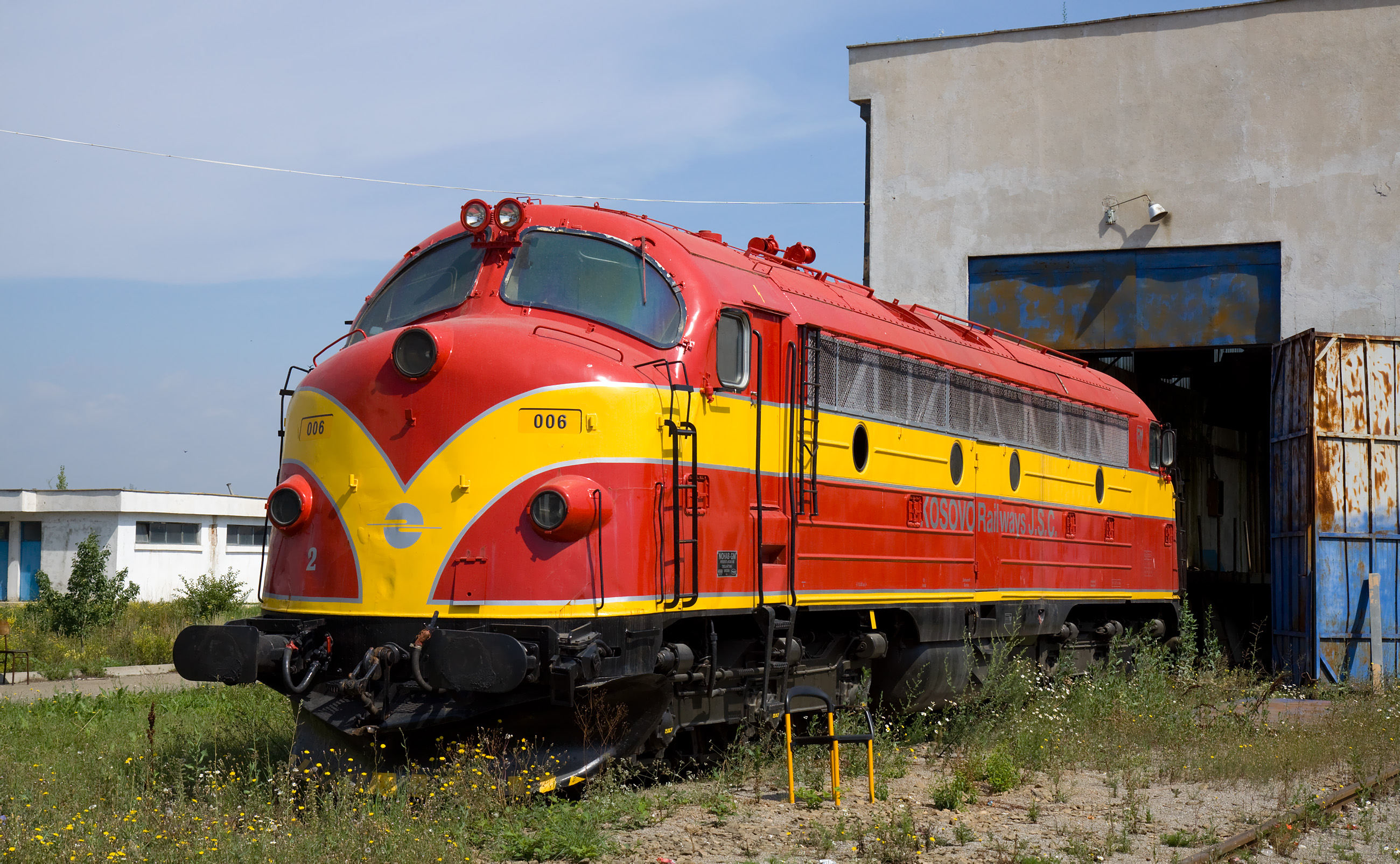 Former Norwegian Di 3 locomotive, now Kosovo Railways number 006, at Fushë Kosovë. The locomotive was non-operational due to a broken generator at the time this picture was taken.